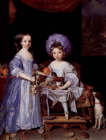 Painting by John Michael Wright (1617–1694) of Catherine Cecil and James Cecil, later 4th Earl of Salisbury.